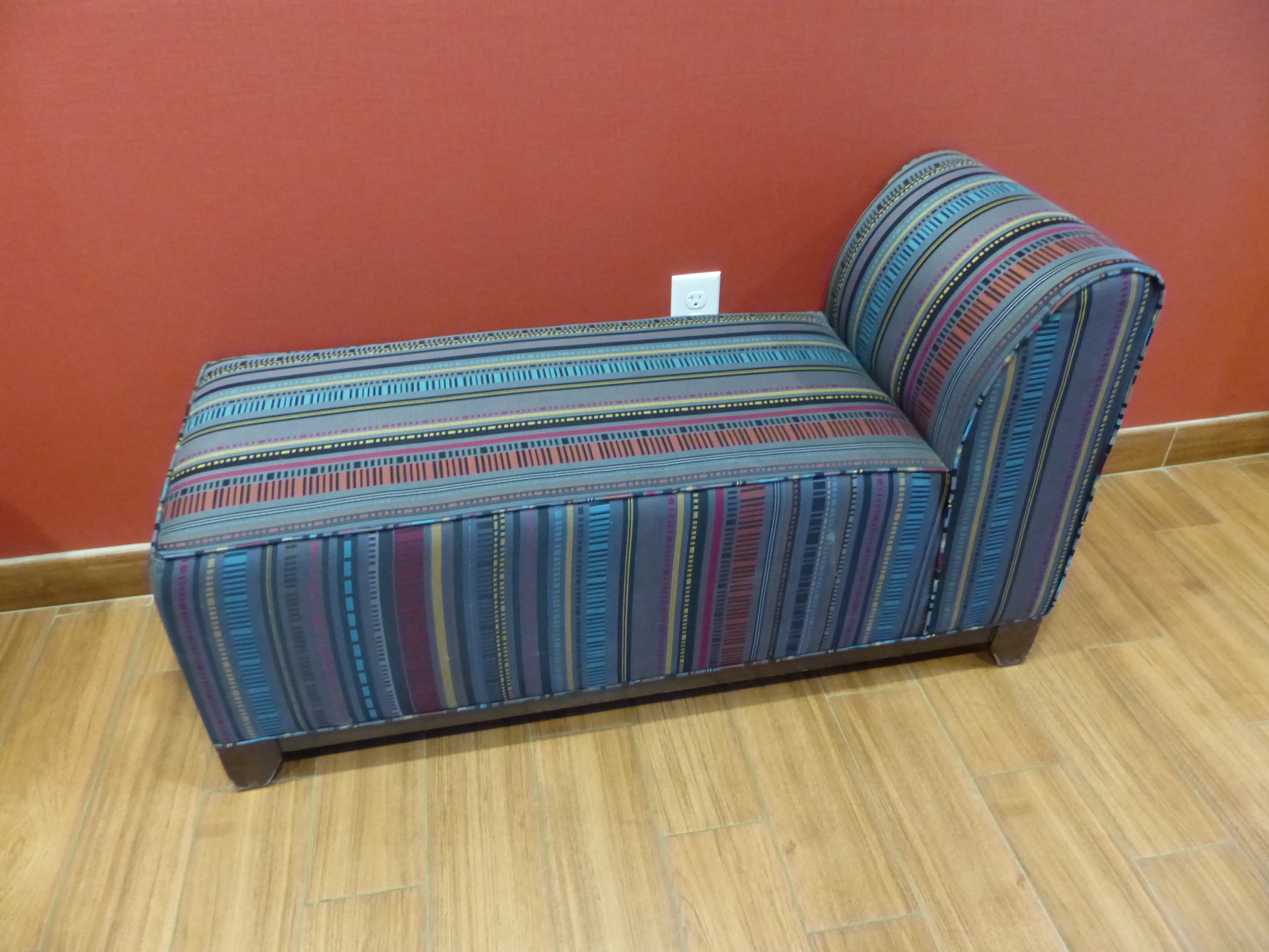 seen in a hotel in the United States